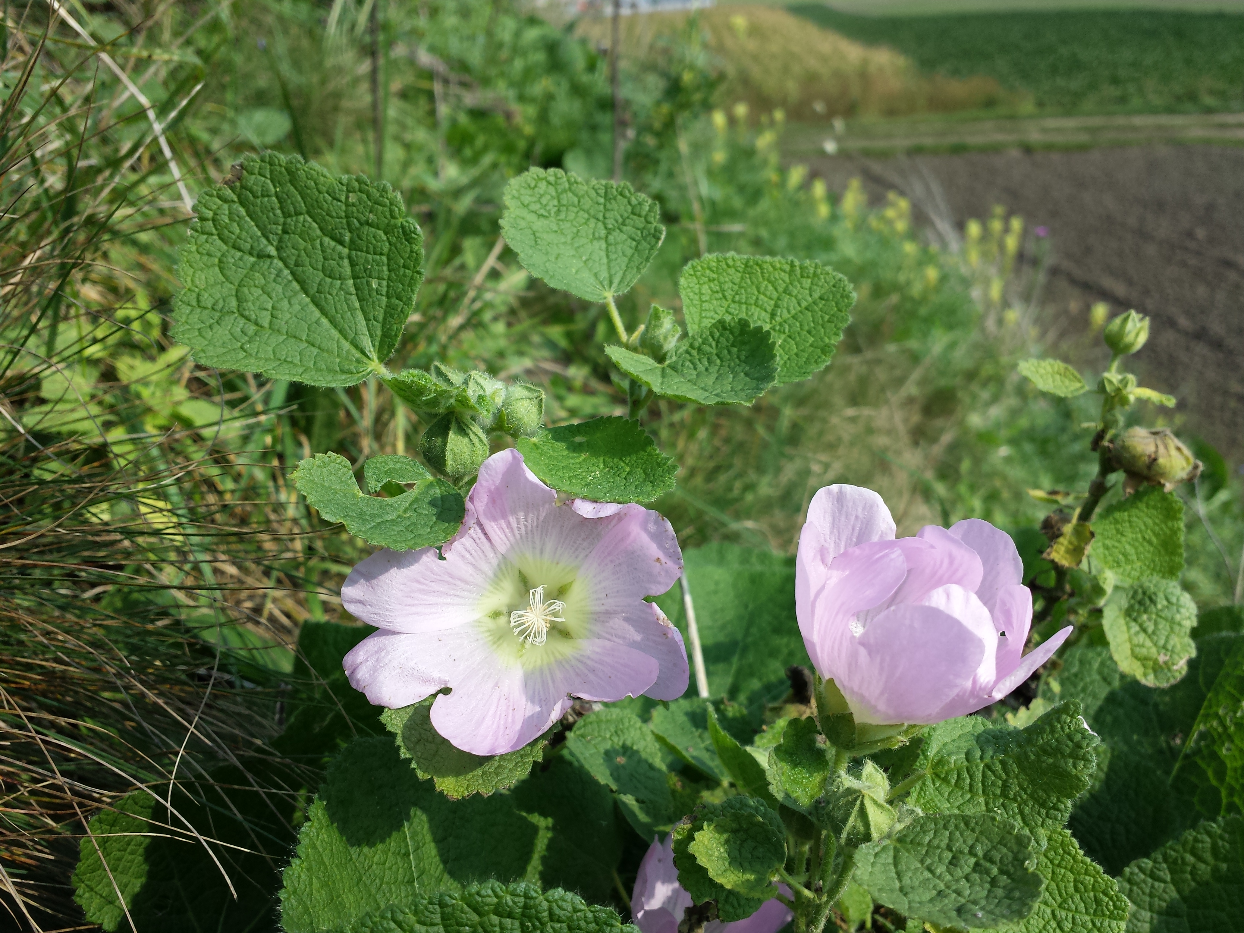 Florescence Taxon: Alcea biennis (sensu Fischer et al. EfÖLS 2008 ISBN 978-3-85474-187-9) Location: Leeberg north-west of Niederhollabrunn, district Korneuburg, Lower Austria - 237 m a.s.l. Habitat: dry grassland (Loess)